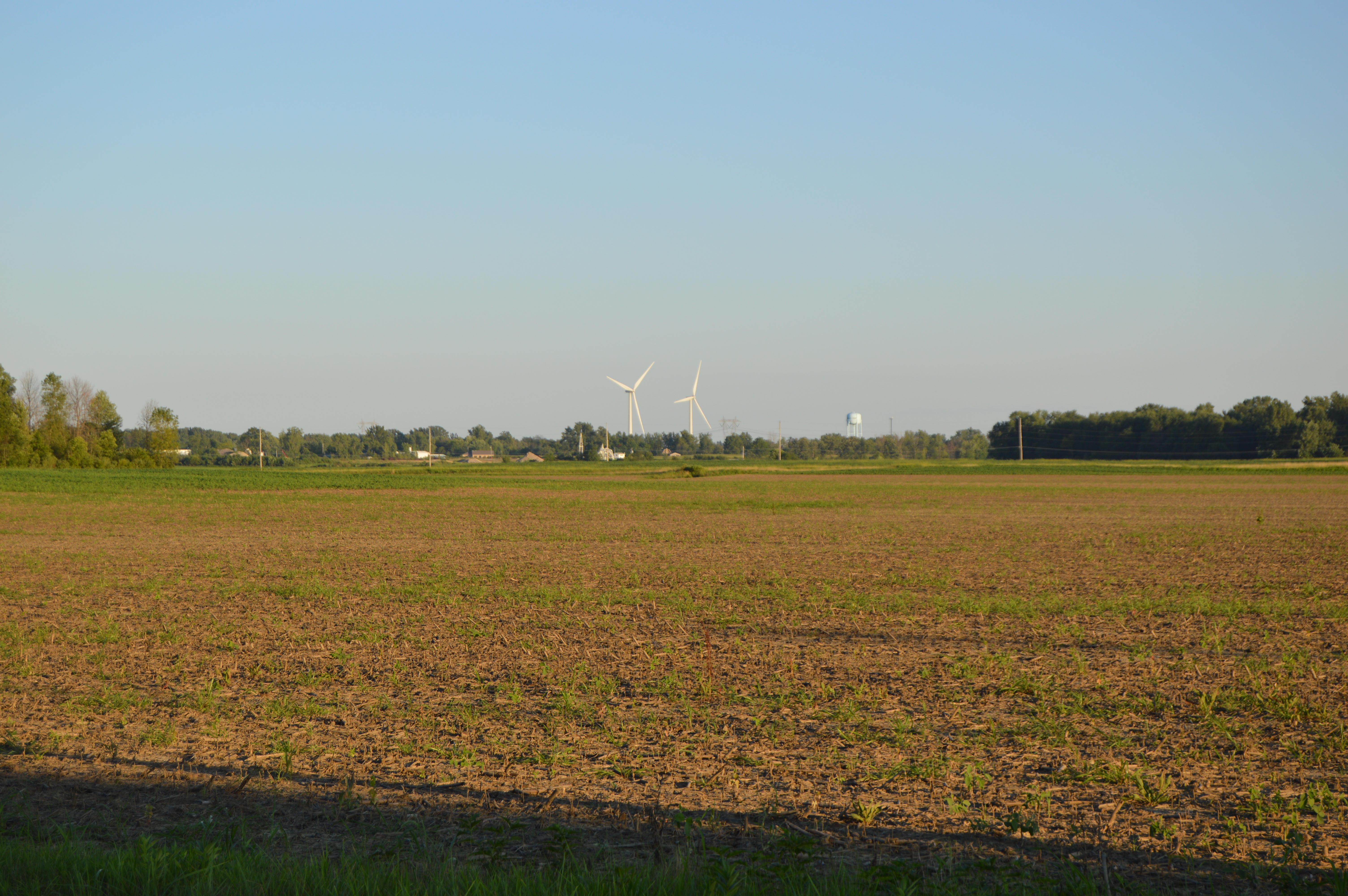 Looking south from State Route 720 over fields (perhaps soybean fields killed by flooding?) between Lakeview and Russells Point in Stokes Township, Logan County, Ohio, United States.